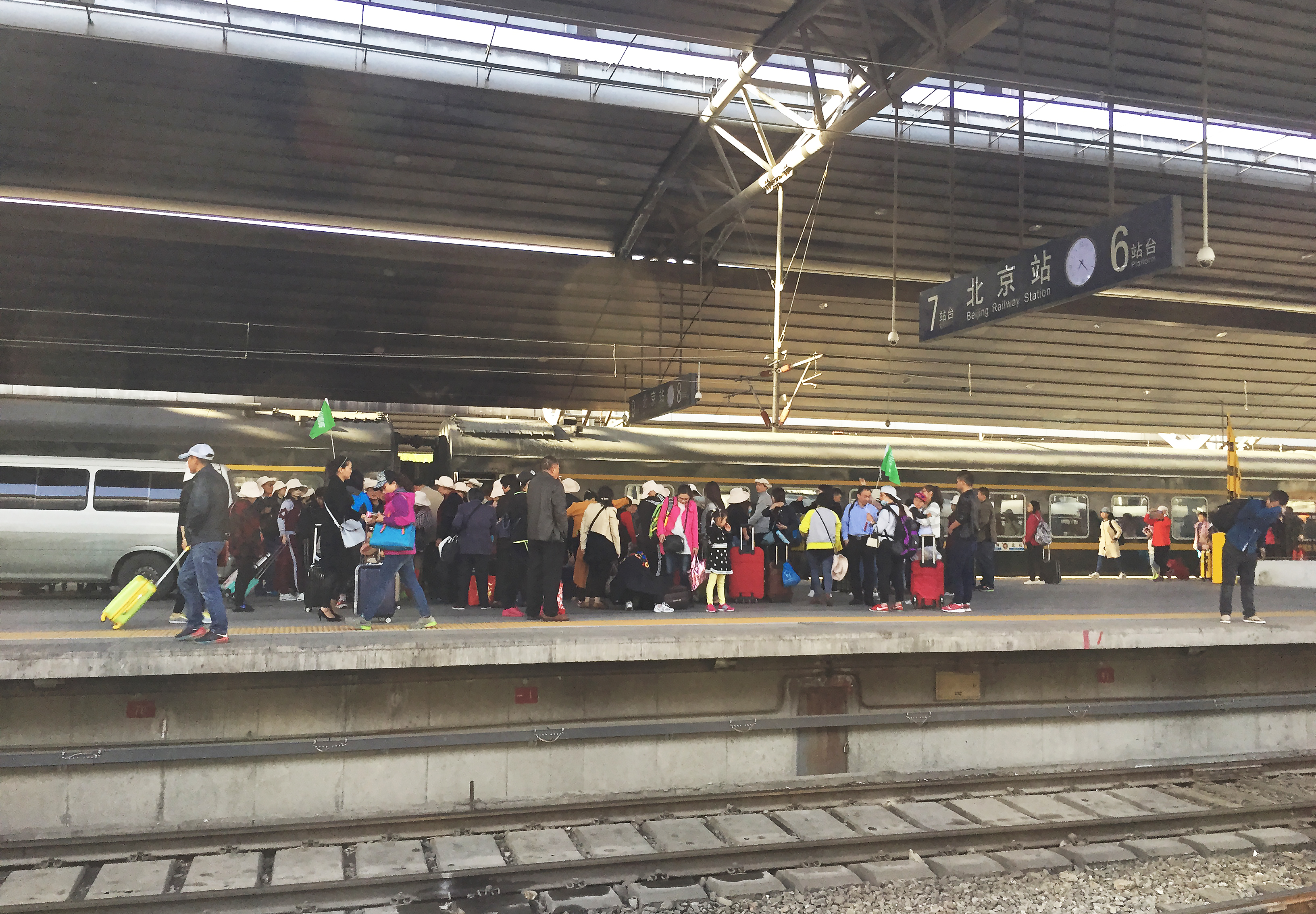 Here, a group of tourists from Yangzhou gather on the platform.